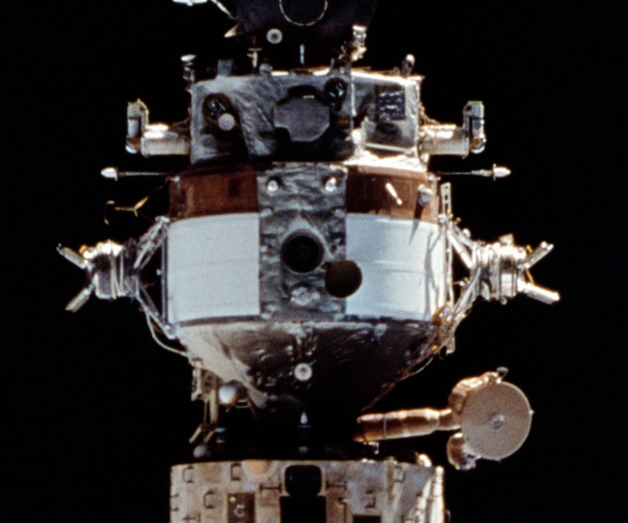 Photographic documentation of the Mir Space Station as viewed from the Space Shuttle Discovery during STS-63. Includes views of Mir during Discovery's approach (010-026); the Core Assembly module (027, 051, 054, 059); the Kristall and Core Assembly modules (028-029, 063-064); the solar arrays (030, 041, 045-046); the Core Assembly module and solar arrays (031-037, 040, 043); the Kristall module and solar arrays (038-039); the Kristall module, docking unit, and solar arrays (042, 044, 047, 049); the Kristall and Core Assembly modules and solar arrays (048, 050); the Core Assembly and Kvant modules (052, 060-061); the Kvant and Progress modules (053, 062); the entire space station (055-057, 067-082); the Kristall module and docking unit (058); the Kristall and Soyuz-TM modules (065); and the Soyuz-TM, Kristall, and Core Assembly modules (066).